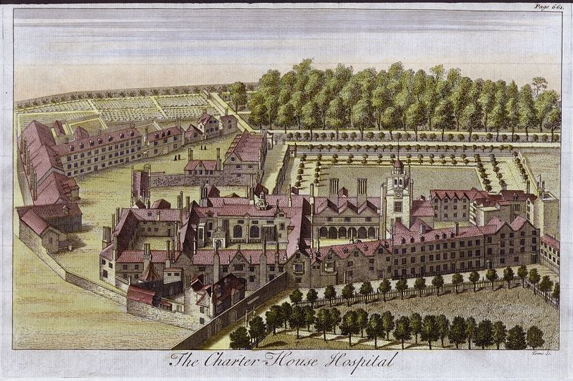 London Charter house hospital